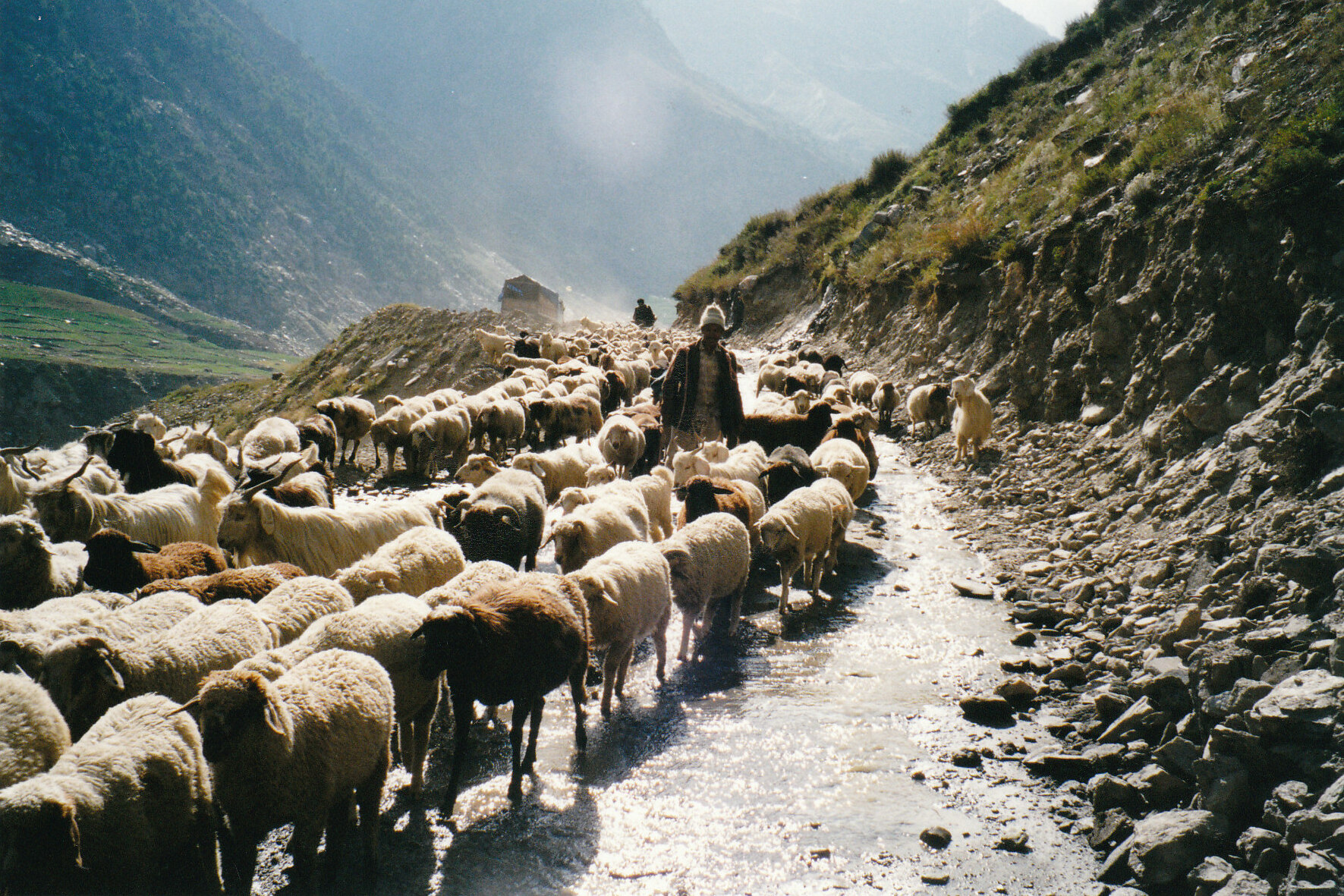 Sheep flock. Himachal Pradesh, India